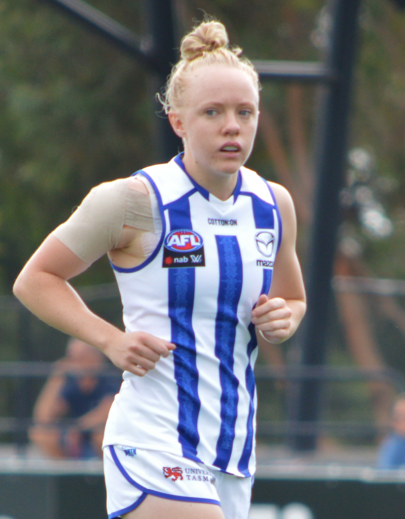 Emma Humphries with North Melbourne during an AFLW practice match against Melbourne at Casey Fields in January 2019.